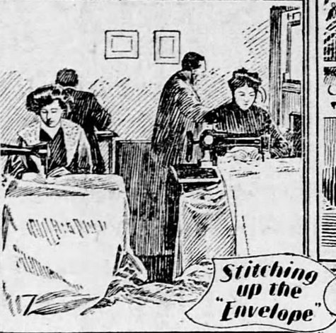 The sewing area of Myers "balloon farm" used to assemble the envelope of the balloon